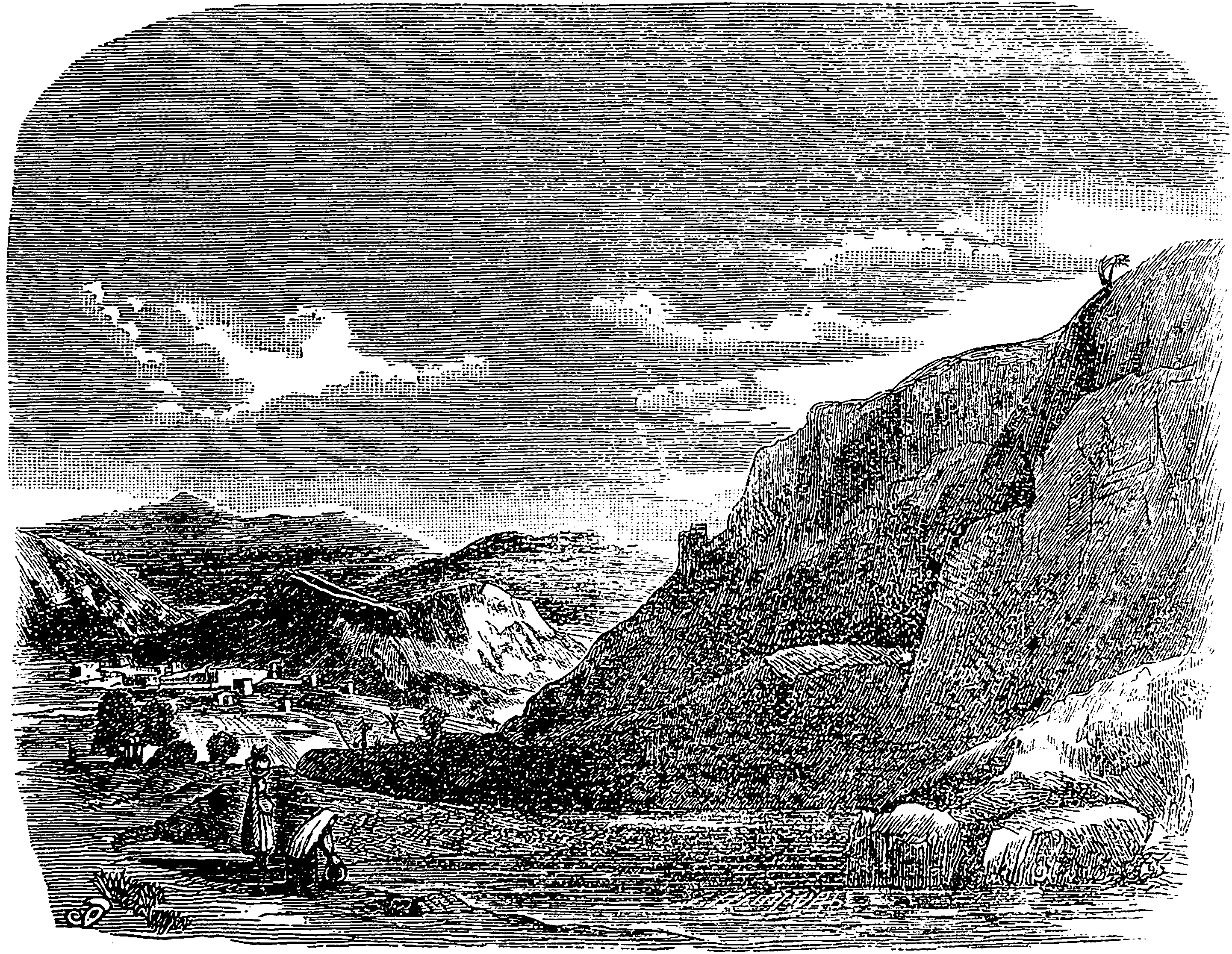 Nob. Picture from popular bible encyclopedia of Archimandrite Nicephorus (1892).